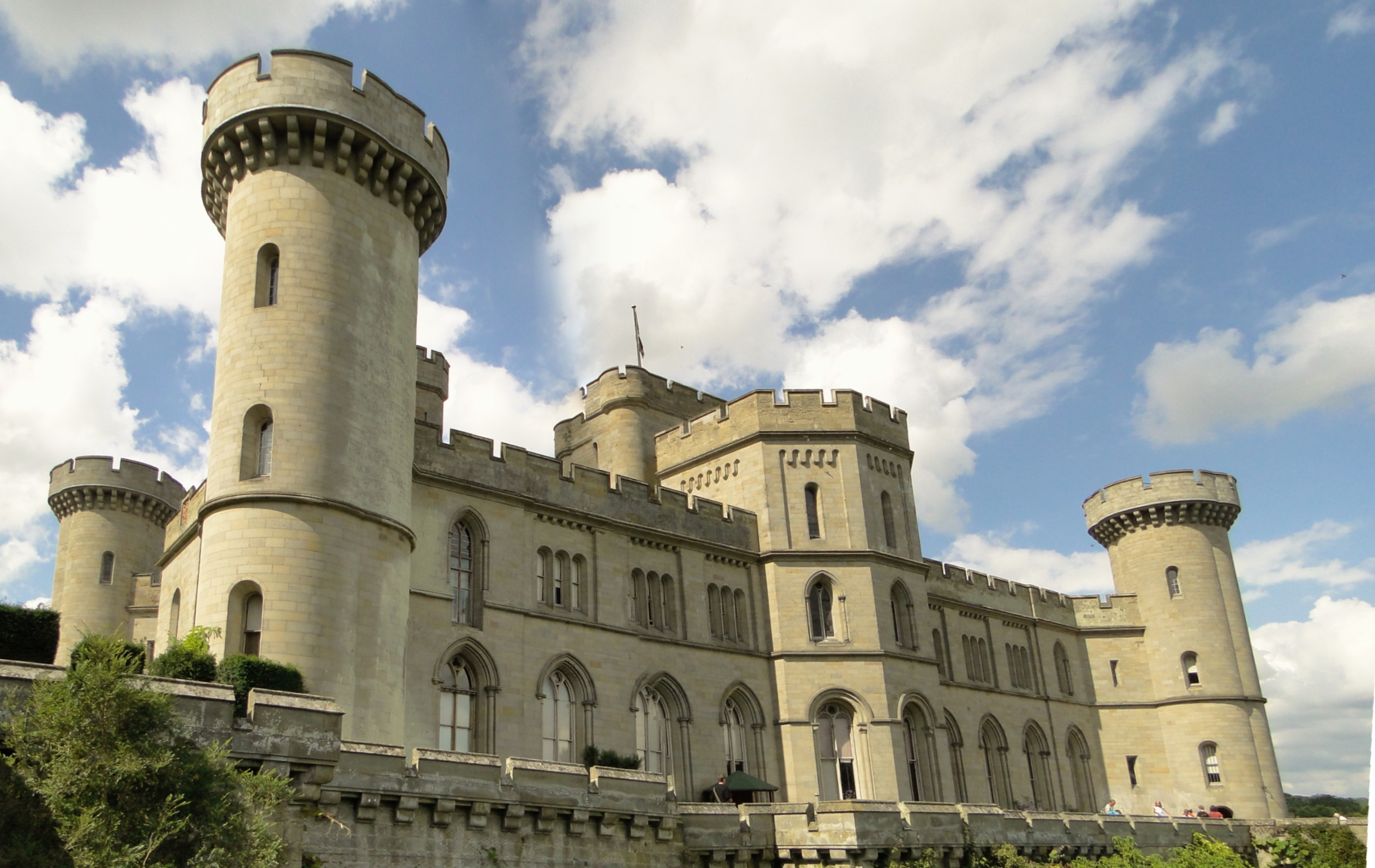 Eastnor Castle.